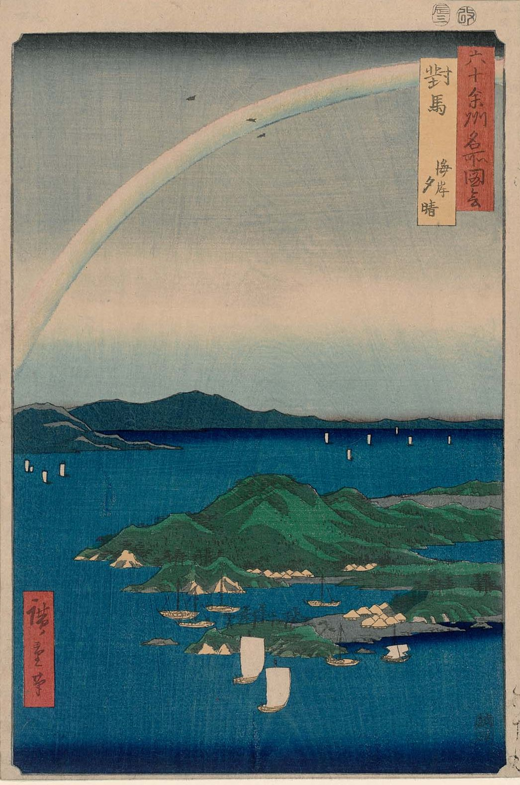 Part of the series Famous Places in the Sixty-odd Provinces, No. 69 (Saikaidō group)